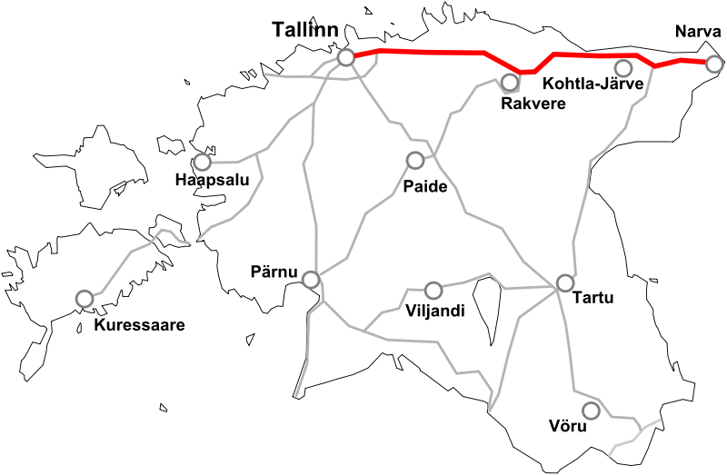 White map of Estonian National Route 1, marked in red. Bigger cities marked on the map.